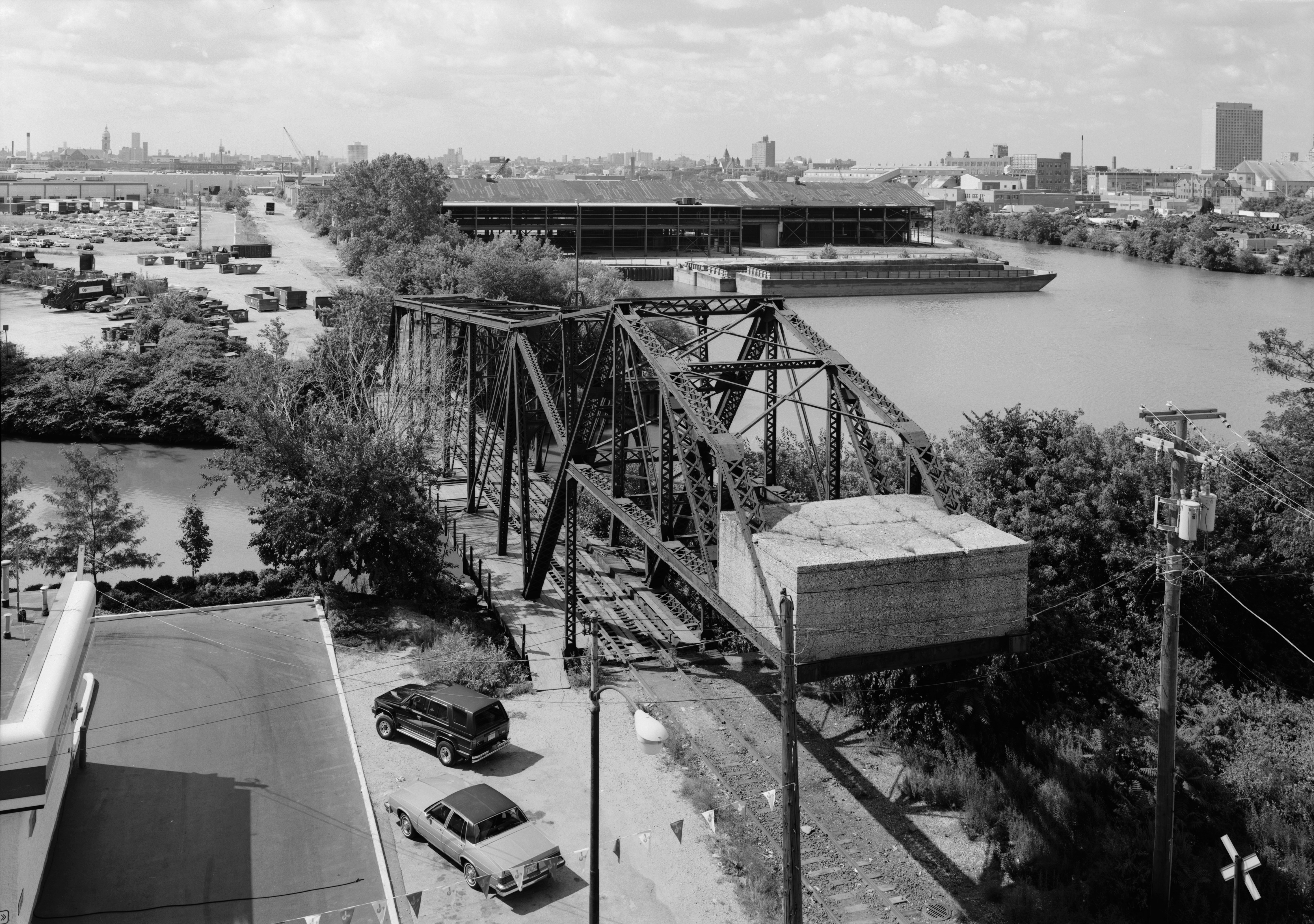 Cherry Avenue Bridge, Chicago, Illinois. Roof top view, looking south.